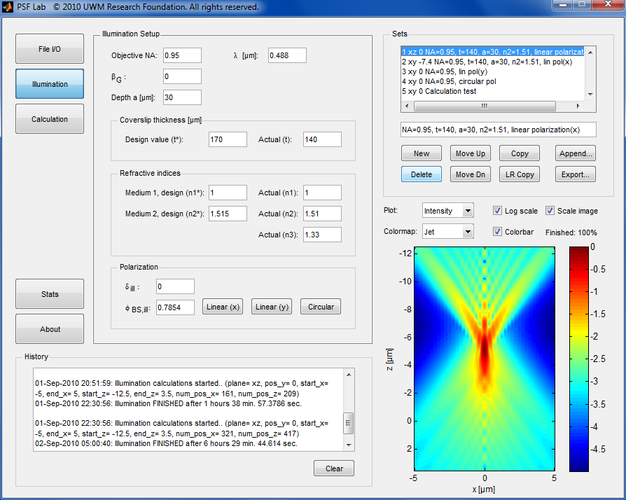 Screenshot of PSF Lab 3.0 under Windows 7 x64. It shows a calculated Point Spread Function of a confocal microscope with some aberrations in the xz plane as an example.